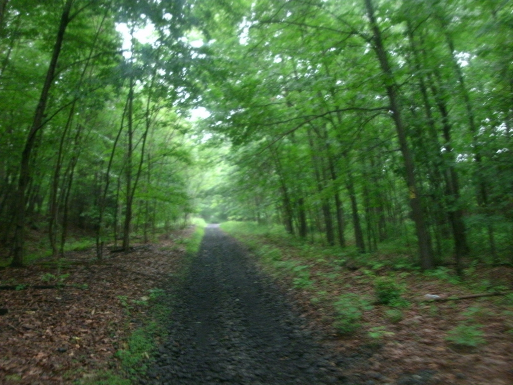 Photograph of the Andover Station site along Roseville Road on New Jersey Transit's prospective Lackawanna Cut-Off line. Restoration of the line began in 2011 and service is expected to be restored, with a station operating at this site, in 2016. As of 1 February 2014, no construction or preparation work has been done at this site, but apparently contracts have been approved for construction. Photograph taken 11 June 2011 by Adam Moss and posted on flickr. Photo uploaded here without any alteration.